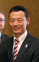 Members of the UK-Japan 21st Century Group met William Hague, Secretary of State for Foreign and Commonwealth Affairs, in the United Kingdom on May 2, 2013.